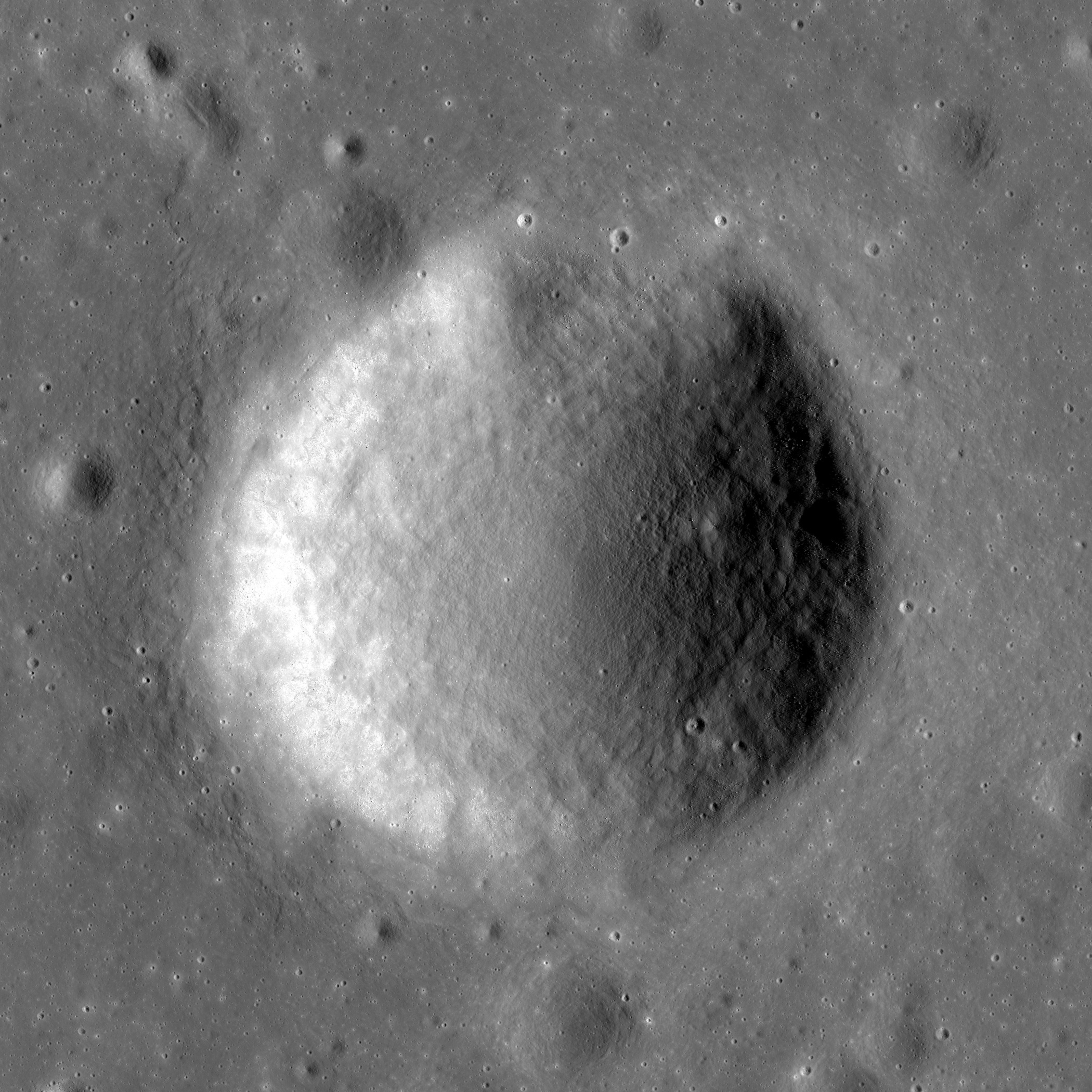 Crater Amontons on the Moon, in Mare Fecunditatis. Centered at 5.33°S, 46.78°E. Photo by Lunar Reconnaissance Orbiter, made with Narrow Angle Camera 19 November 2012 from altitude 102 km. Sun elevation is 27.1°. Resolution is 2.08 m/pixel, width of the photo is 4.37 km, north is up.